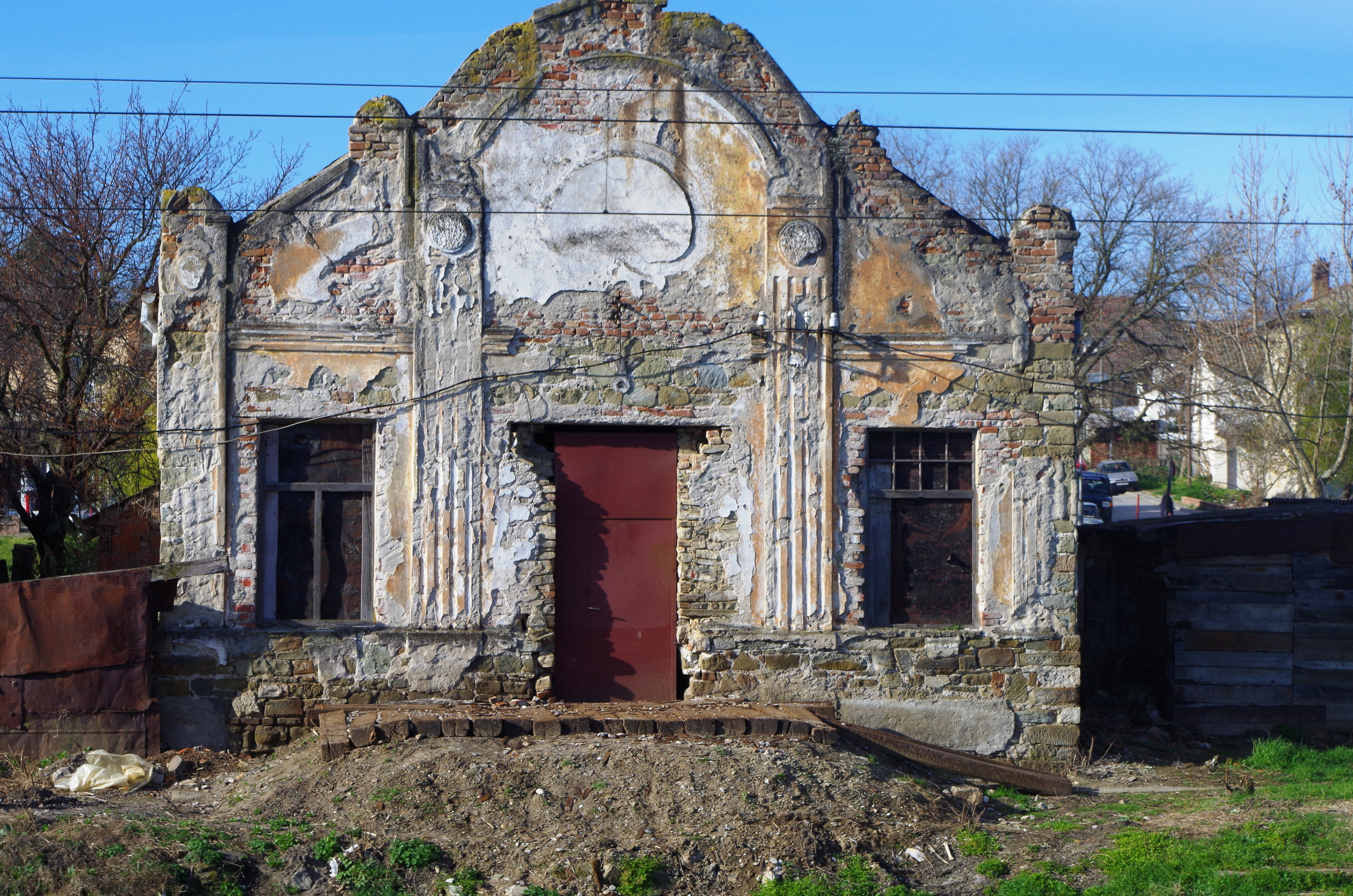 Old Gradsko train station